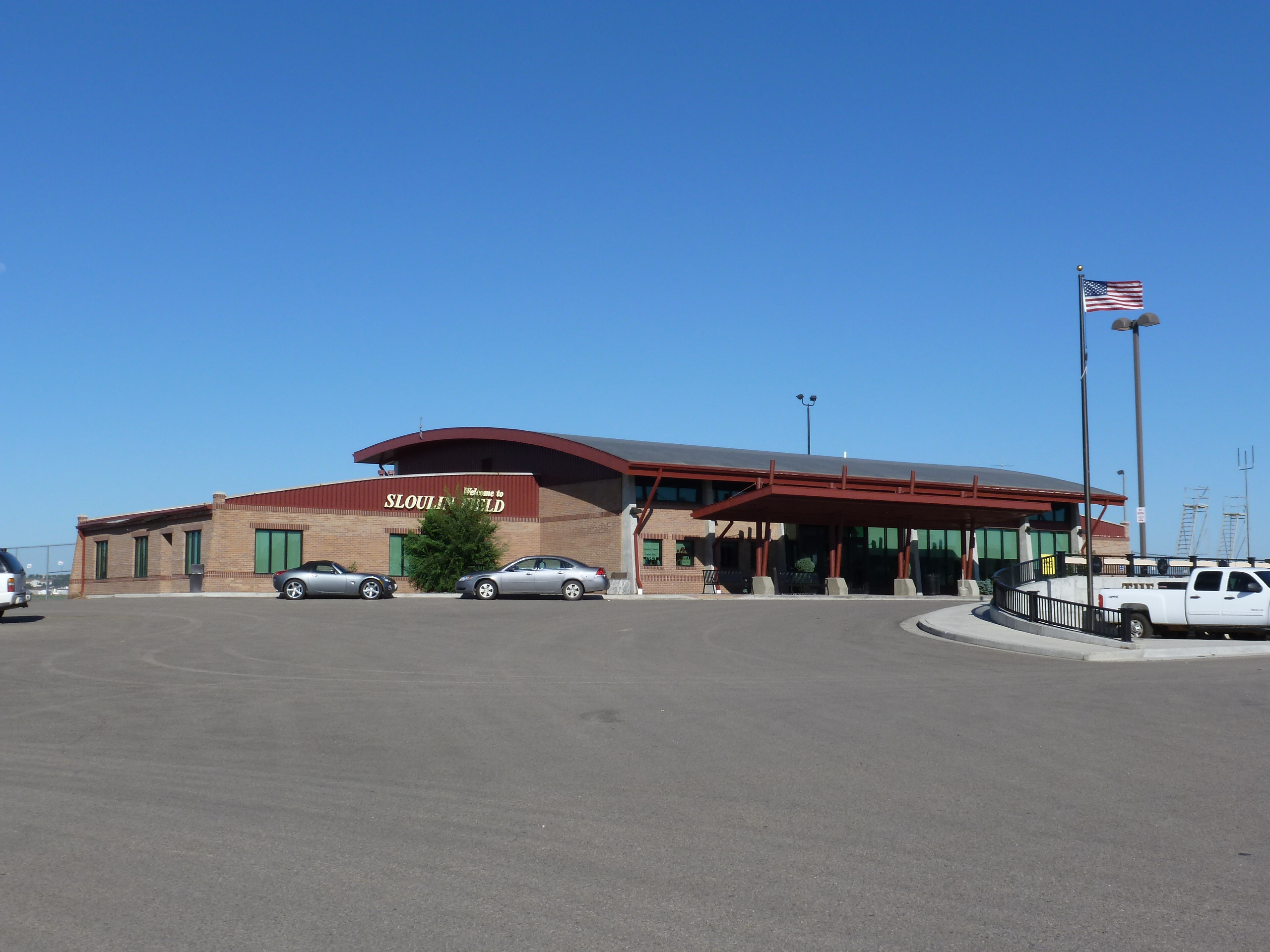 The terminal building at Sloulin Field International Airport, Williston, North Dakota, seen in August 2012.